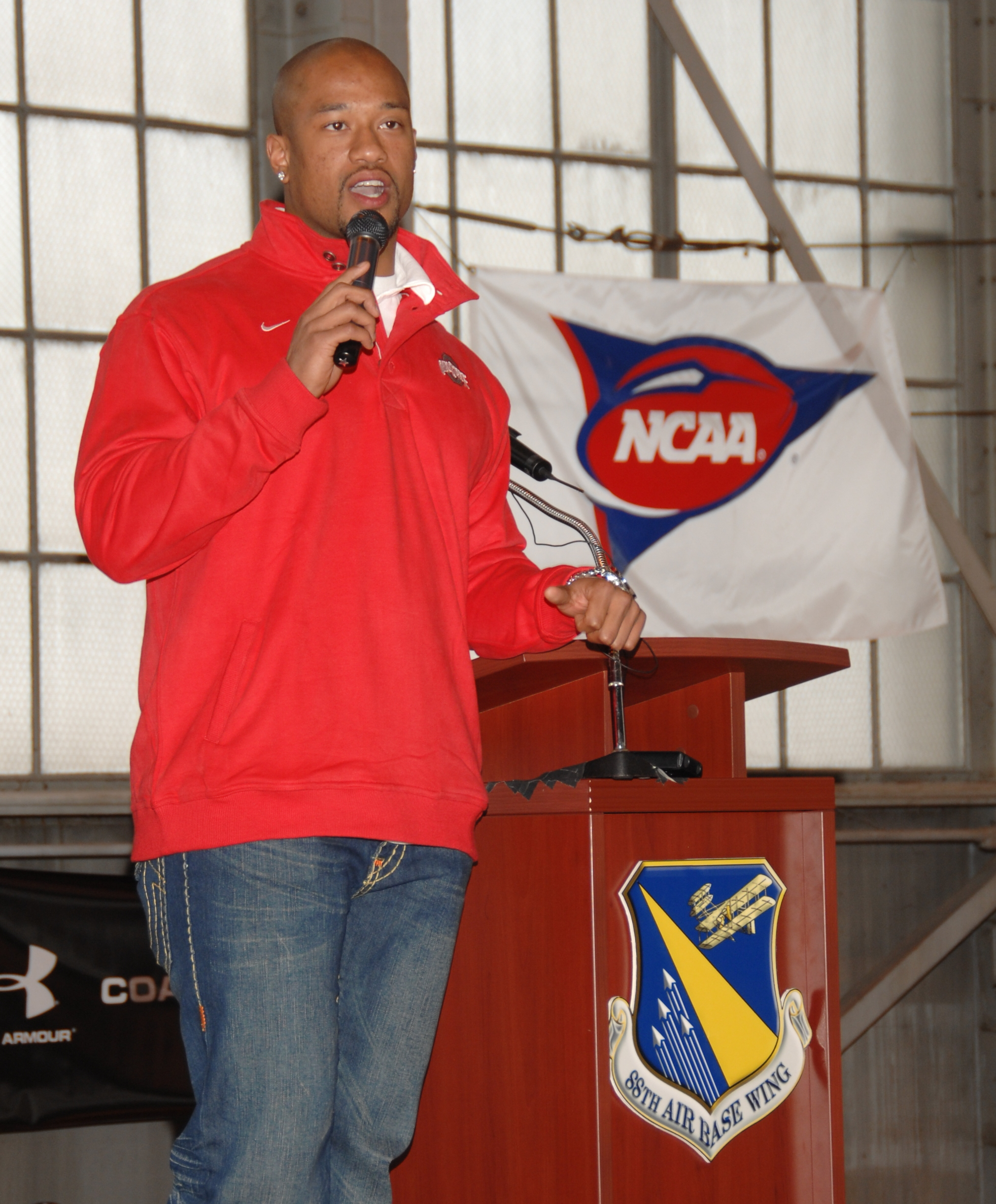 Marcus Freeman at Wright-Patterson Air Force Base 2009.